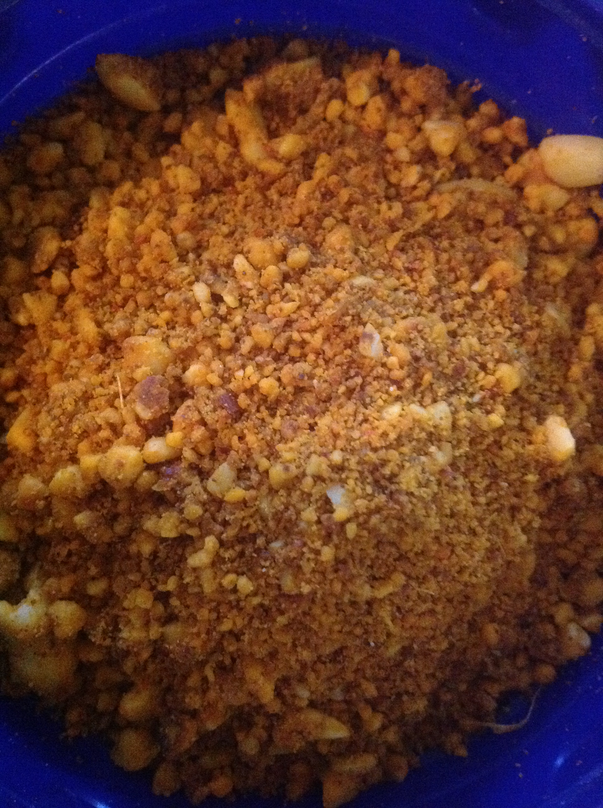 शेंग्दाण्याला भाजून त्याची बारीक पूड करून बनवलेली शेंगदाणा चटणी